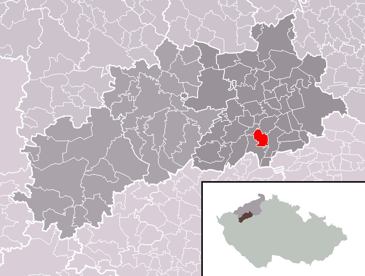 Location of Nová Ves municipality within Louny District and administrative area of Louny as a Municipality with Extended Competence.